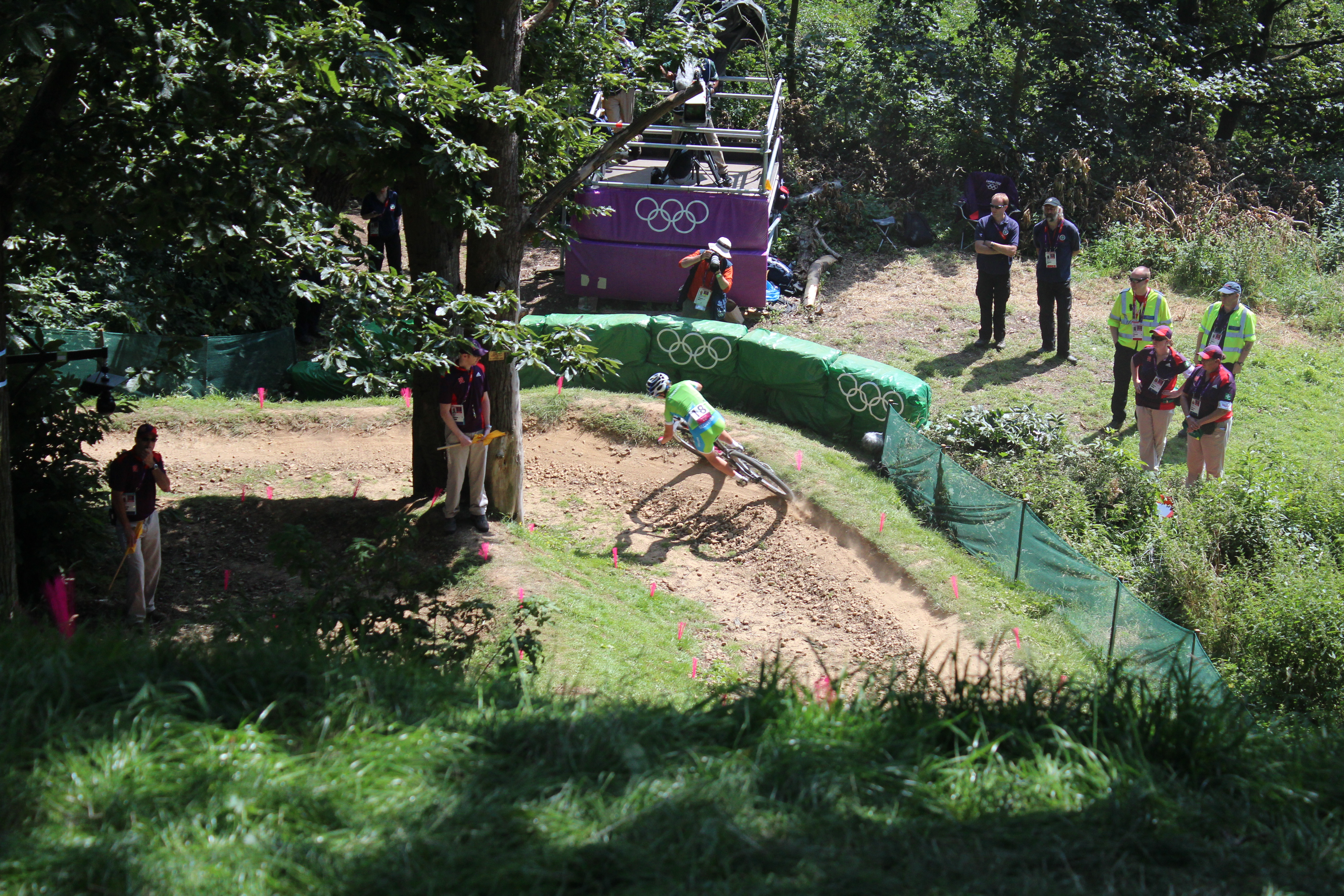 Olympic Mountain Biking - 11/12 August 2012. Hadleigh Farm.